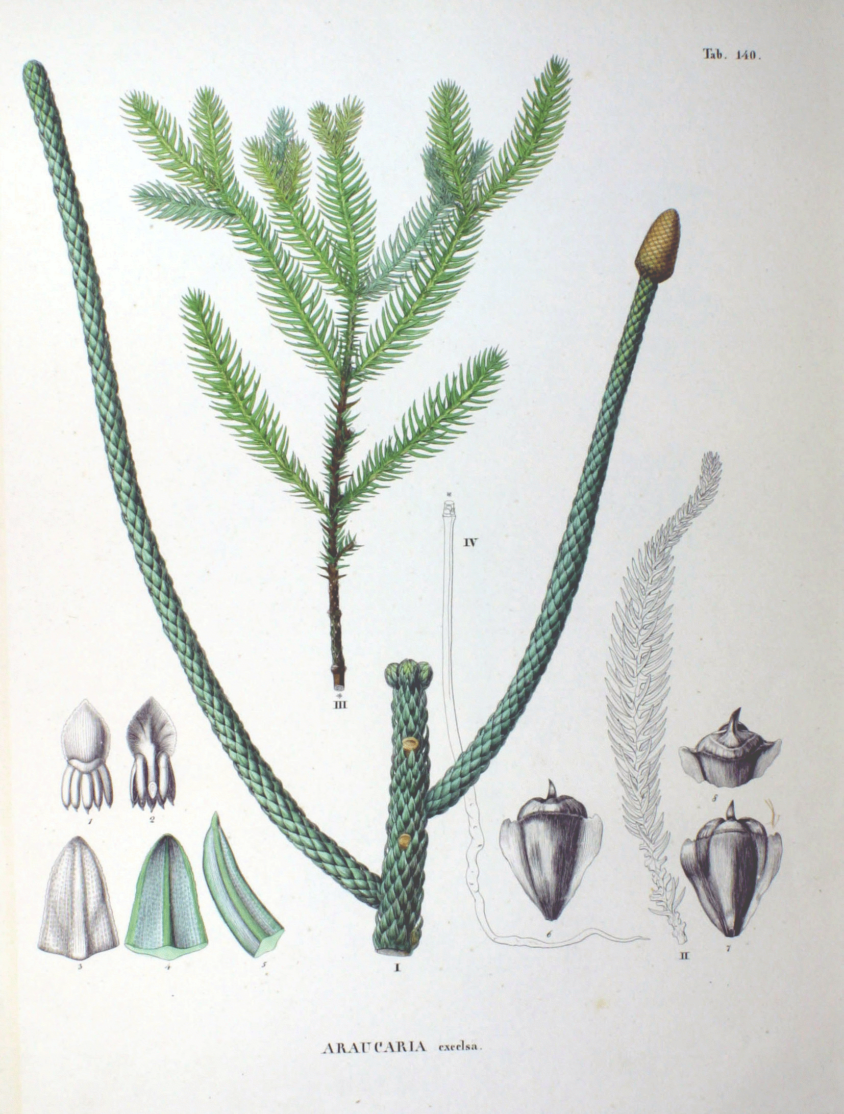 Araucaria heterophylla (syn. A. excelsa). Plate from book